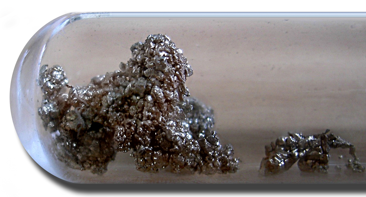 Elementares Strontium unter Argon-Schutzgasatmosphäre / Pure strontium in protective argon gas atmosphere.